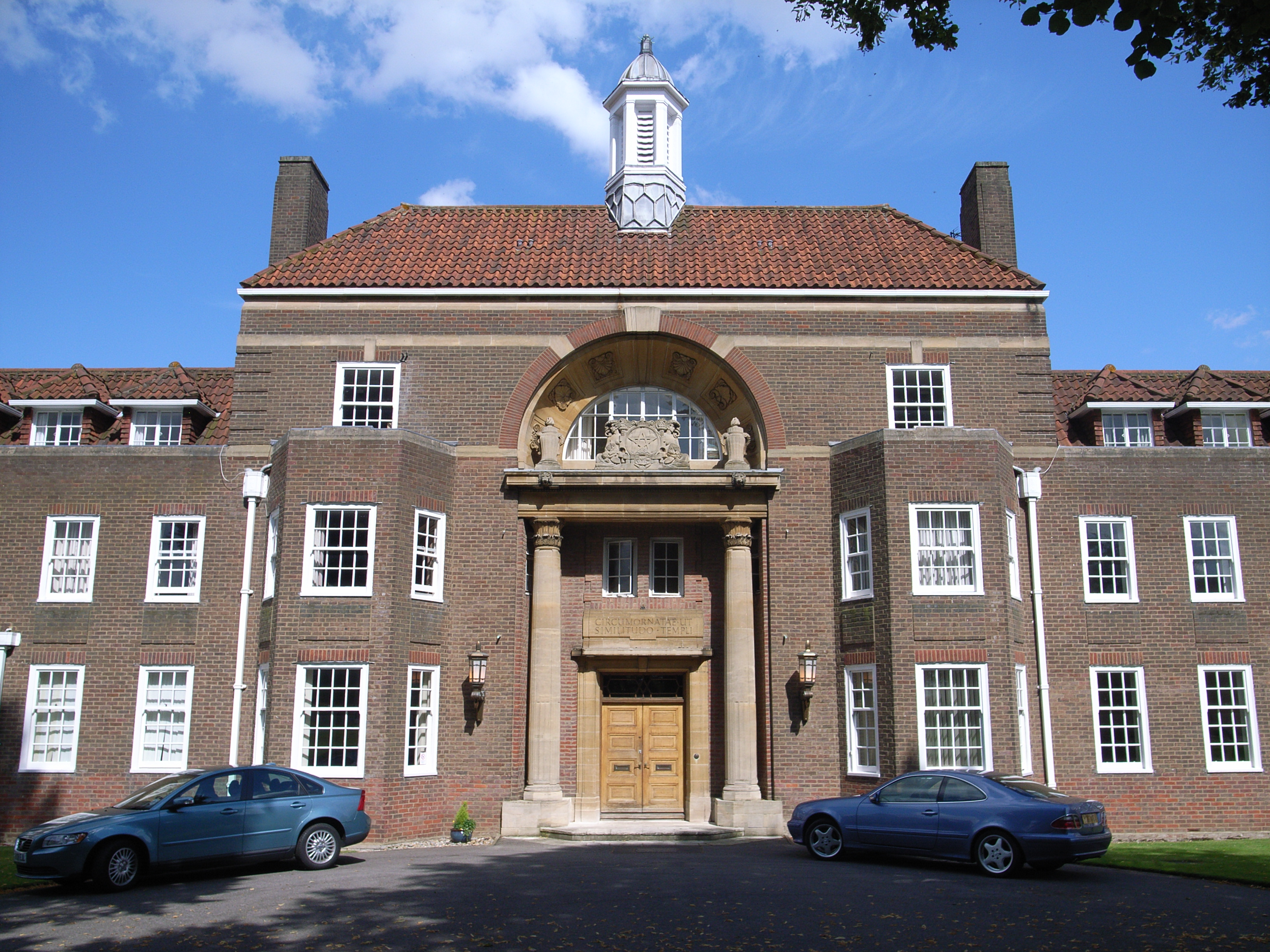 The front entrance of the Royal Masonic School for Girls, Rickmansworth